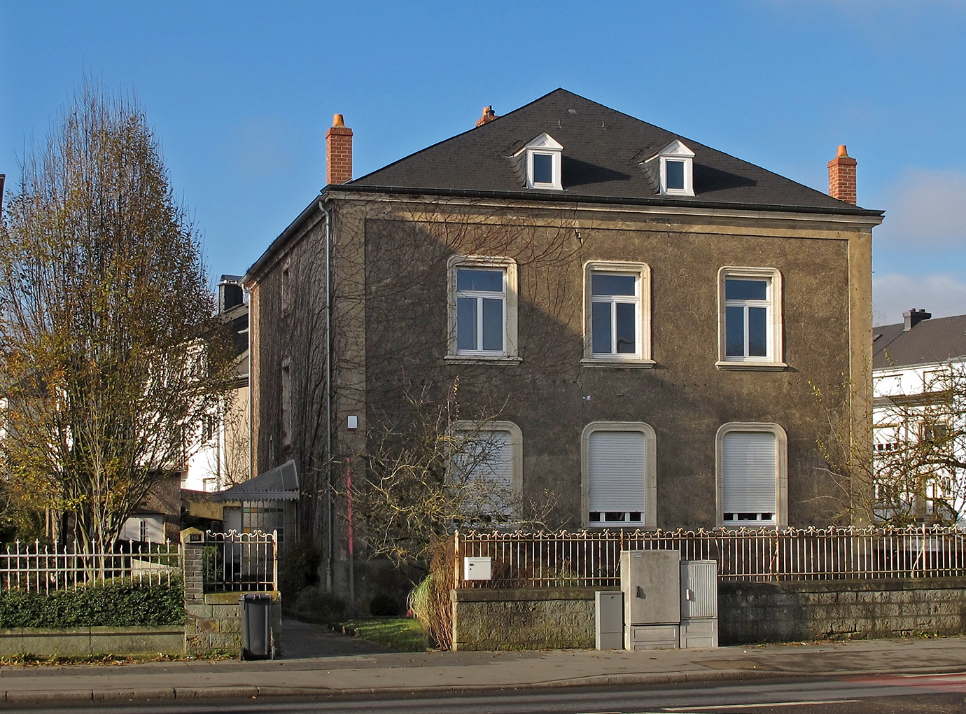 Maison Mousset, home of, built for and decorated by painter Eugène Mousset, in Esch-sur-Alzette.